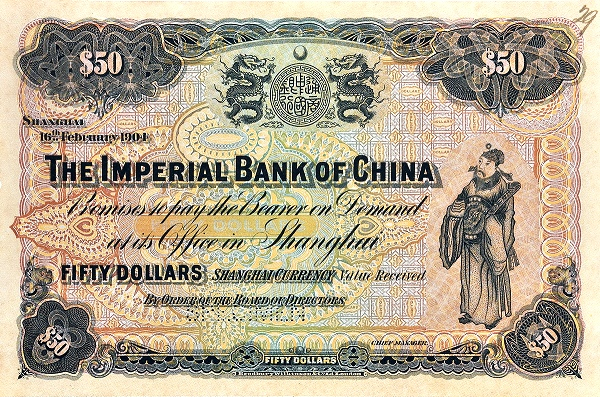 A banknote issued by the Imperial Bank of China issued during the Guangxu era of the Manchu Qing Dynasty.